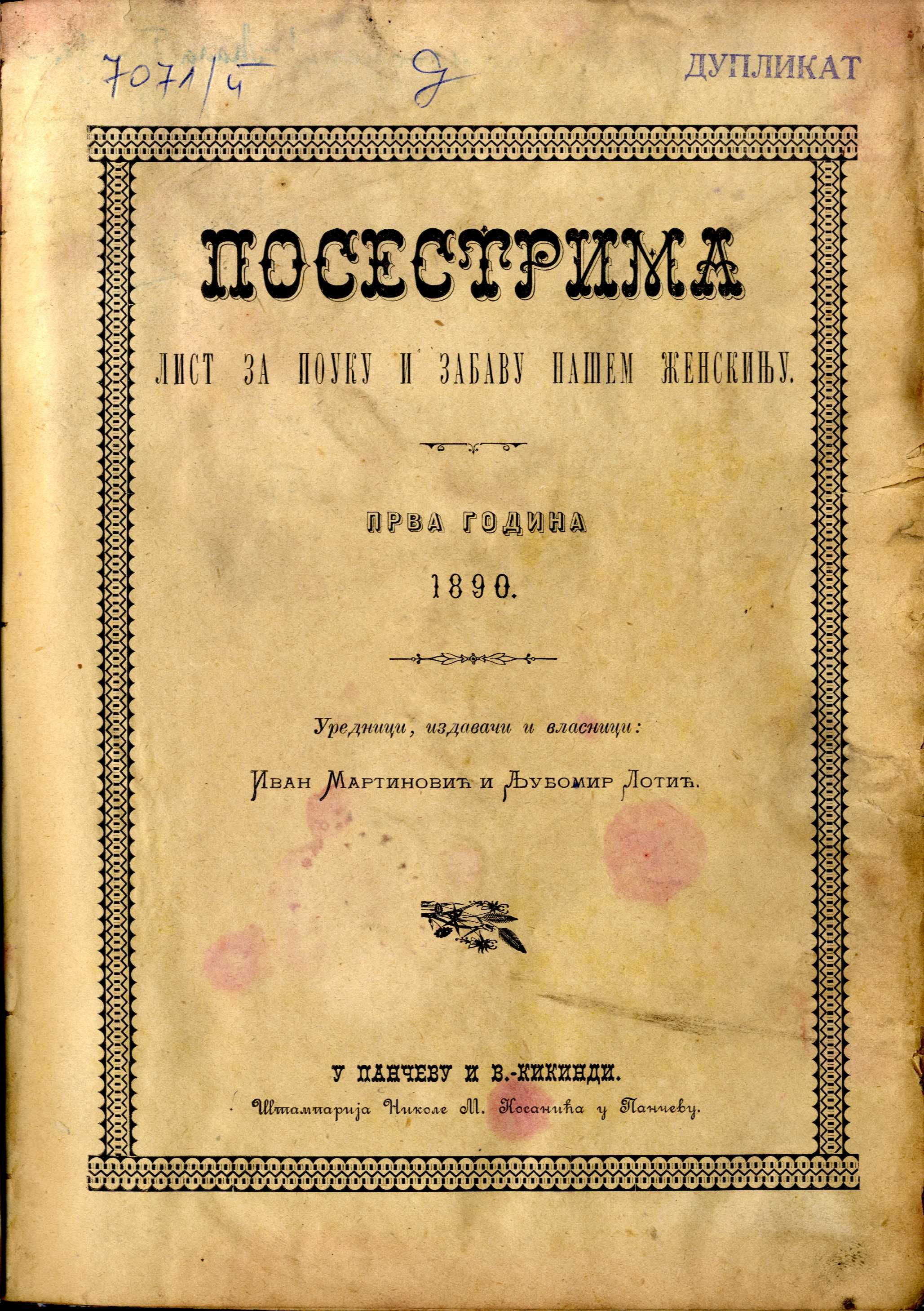 Posestrima, journal from Serbia, Front page ,1890